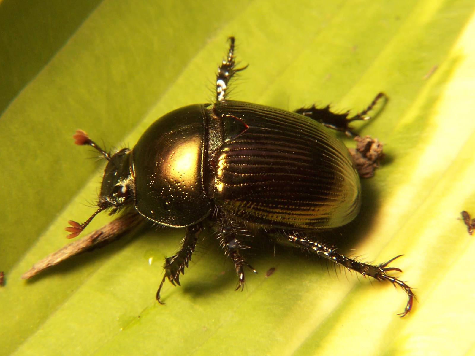 Adult dung beetle, Geotrupes egeriei, commonly called Eger's Earth Boring Beetle.